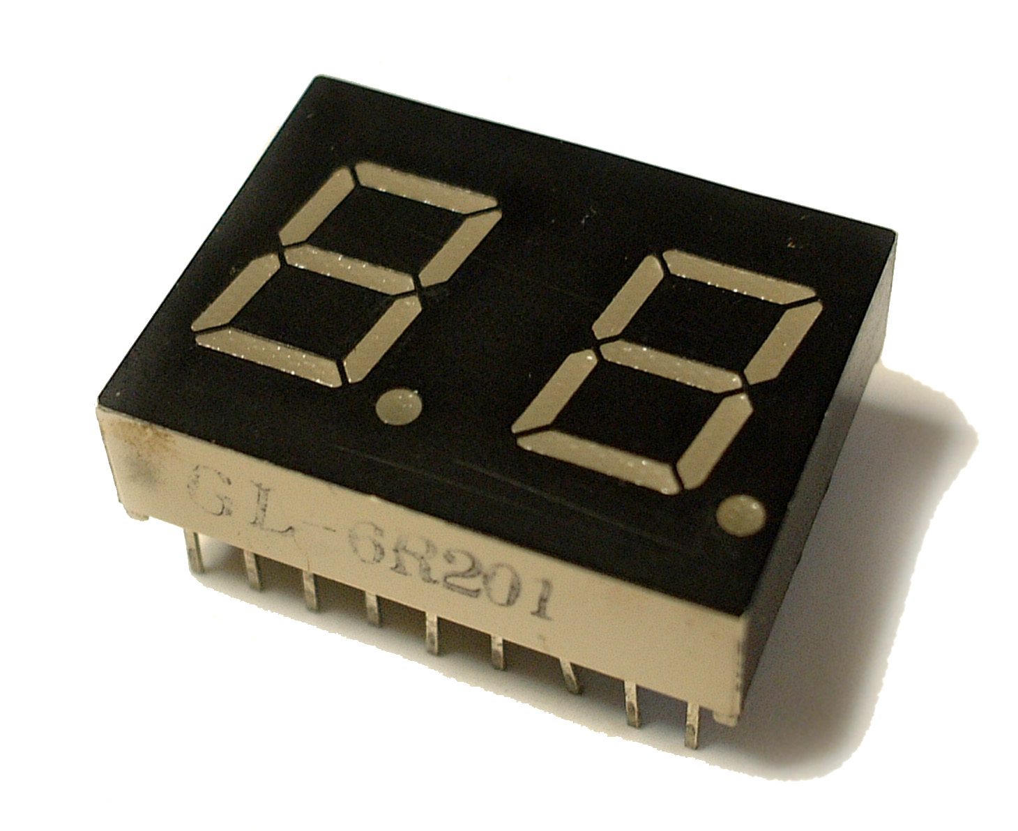 7 Segment Display.